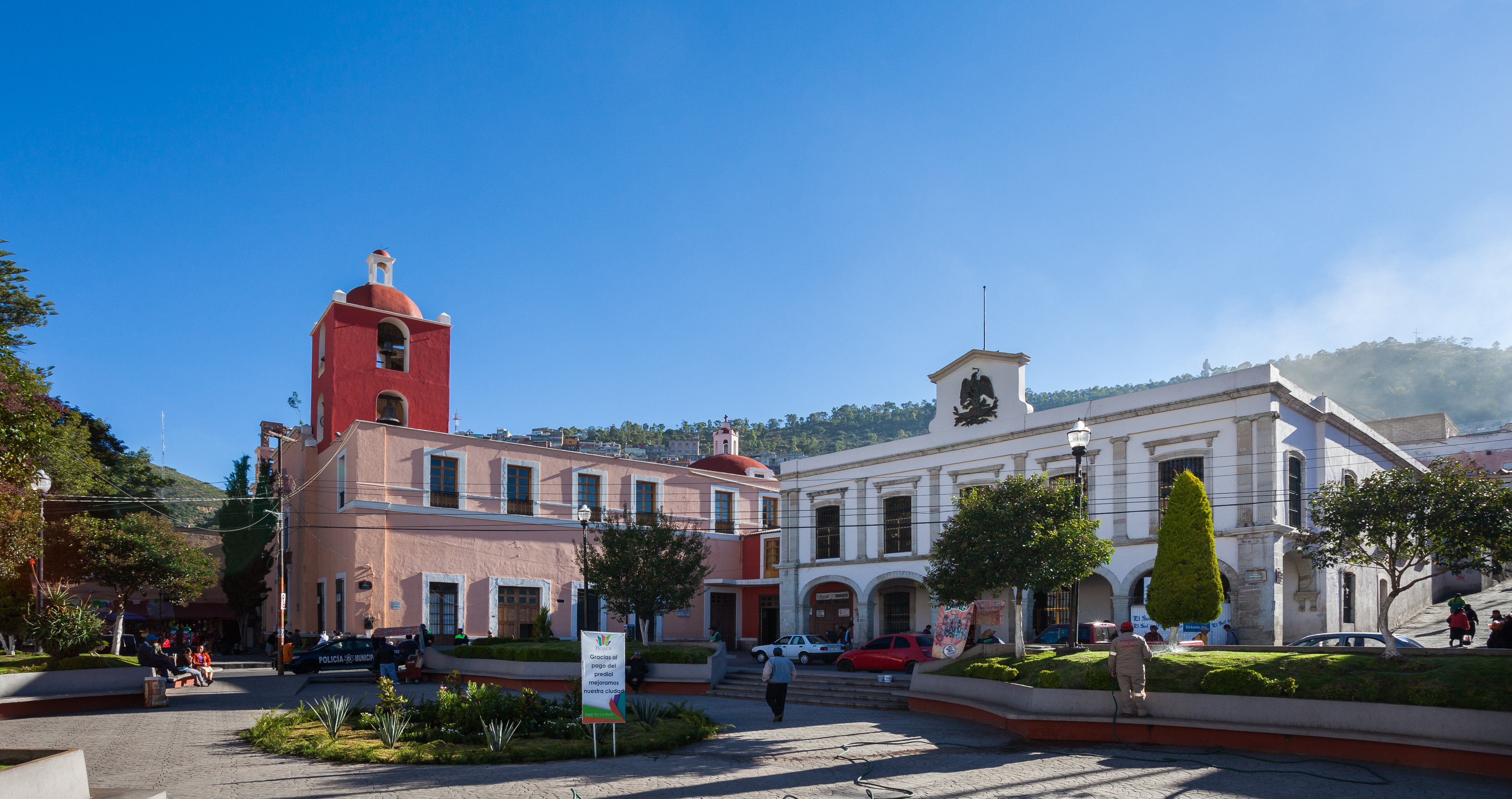 Plaza de la Constitución, Pachuca, Hidalgo, Mexico